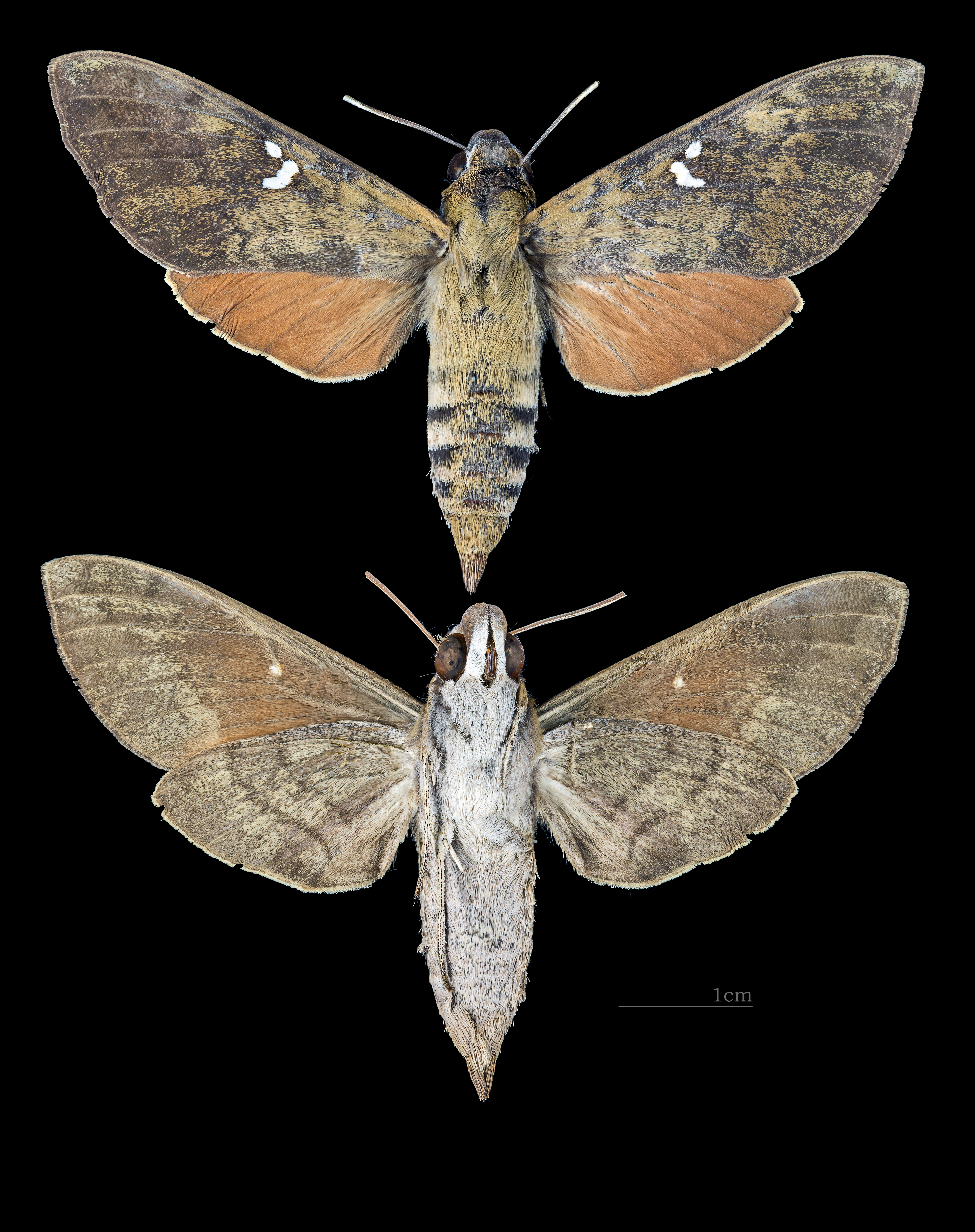 Nephele subvaria - Two views of same specimen Collection of the Mathematician Laurent Schwartz